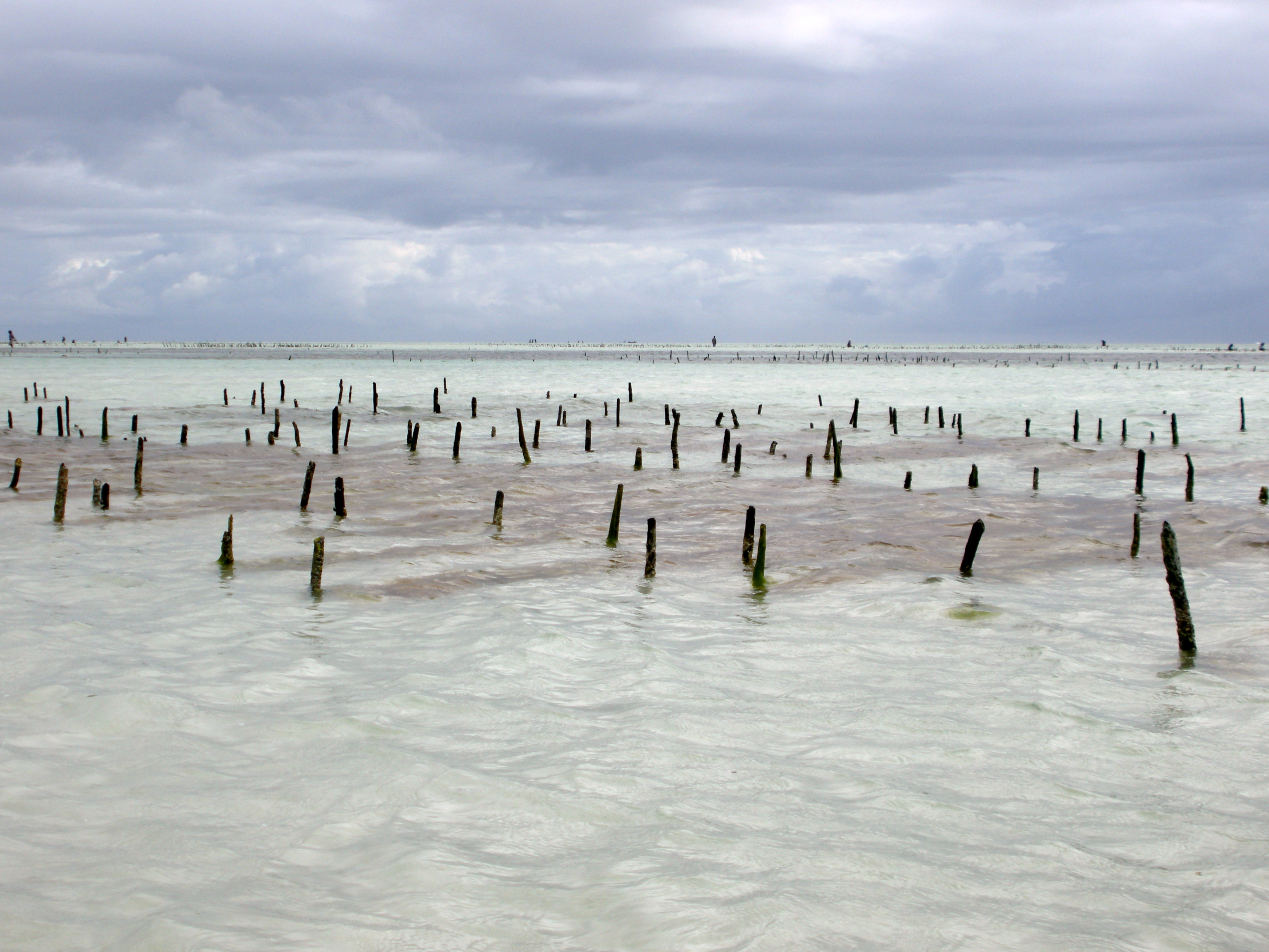 Jambiani seaweed farm